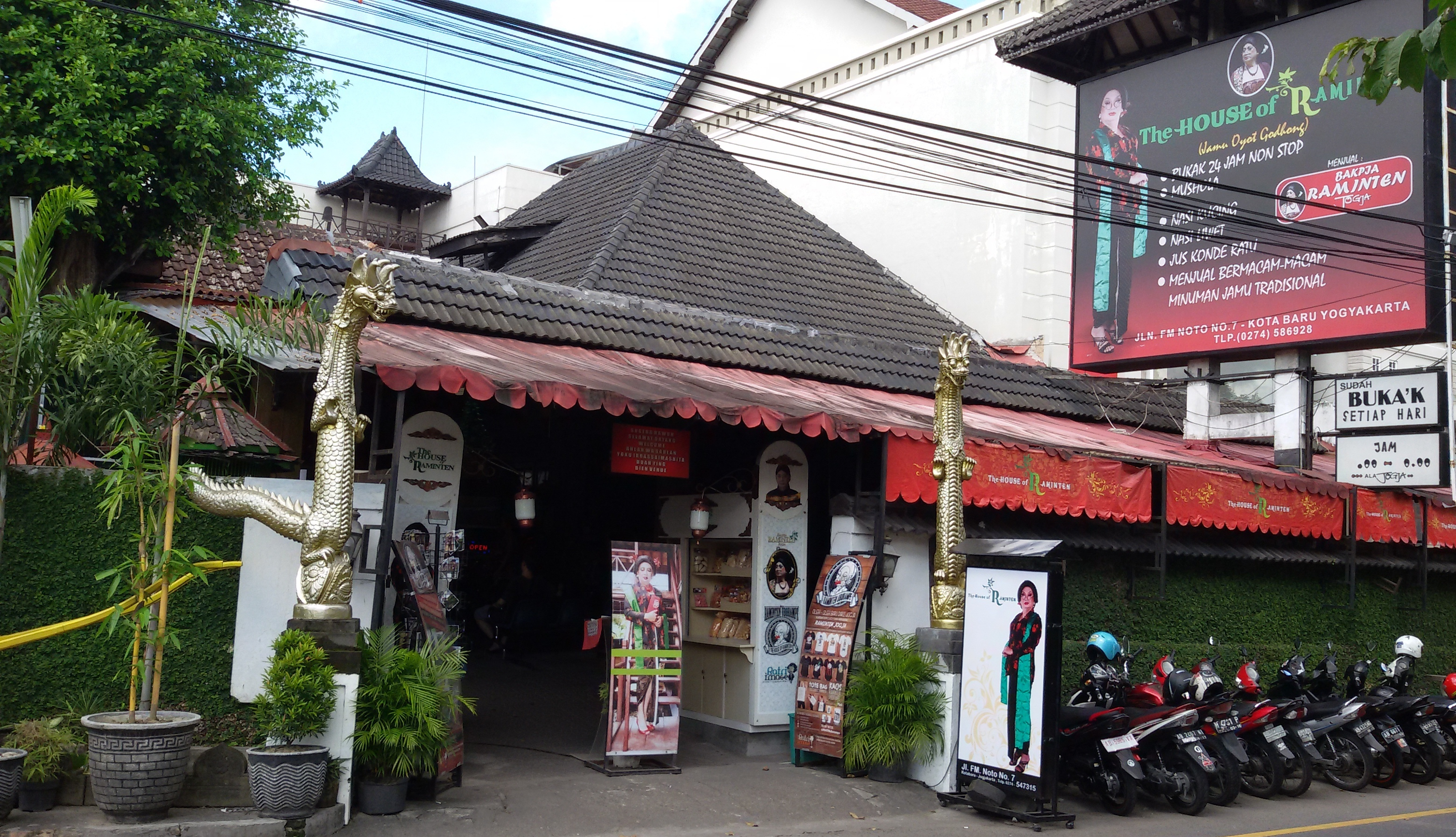 The front side of the House of Raminten